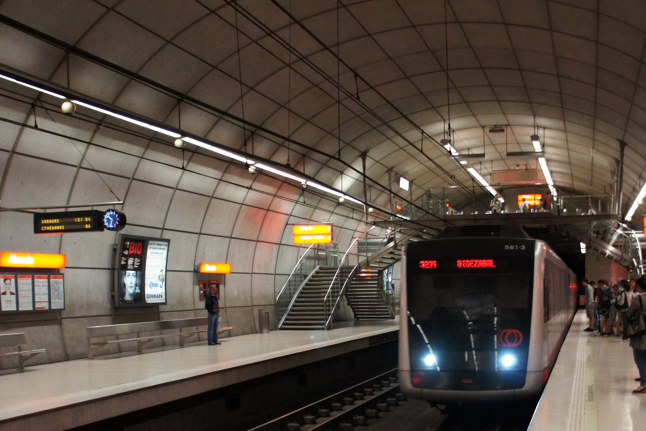 Abando metro station, Bilbao Metro, Basque Country, Spain